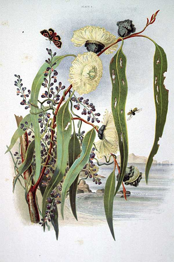 Gum Flowers and Love